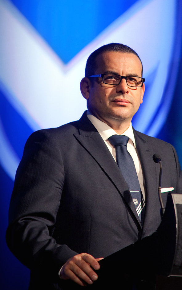 Anthony Di Pietro addressing a Melbourne Victory function in January 2014.